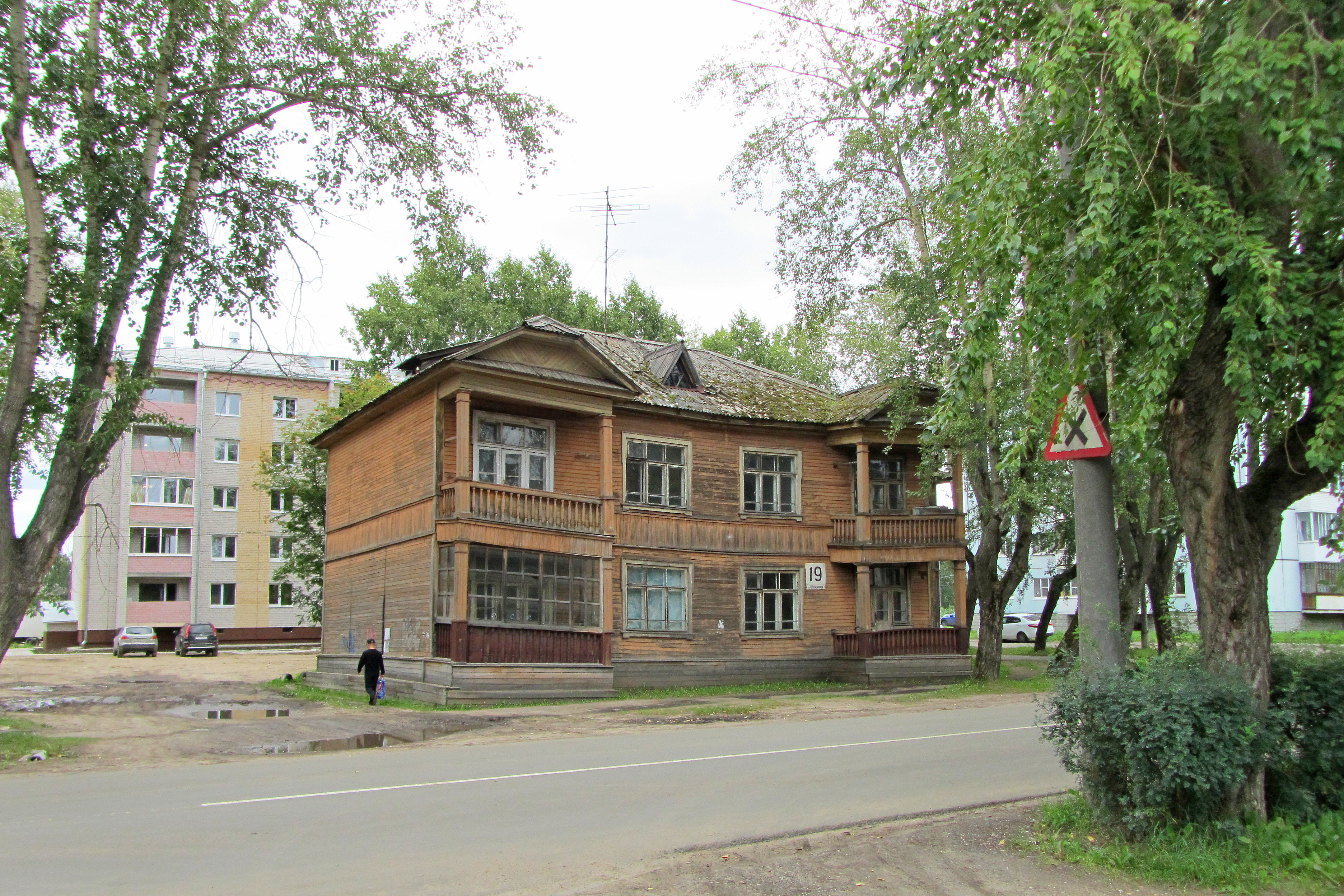 Polyarnaya Street / Industrialnaya Street; Severodvinsk